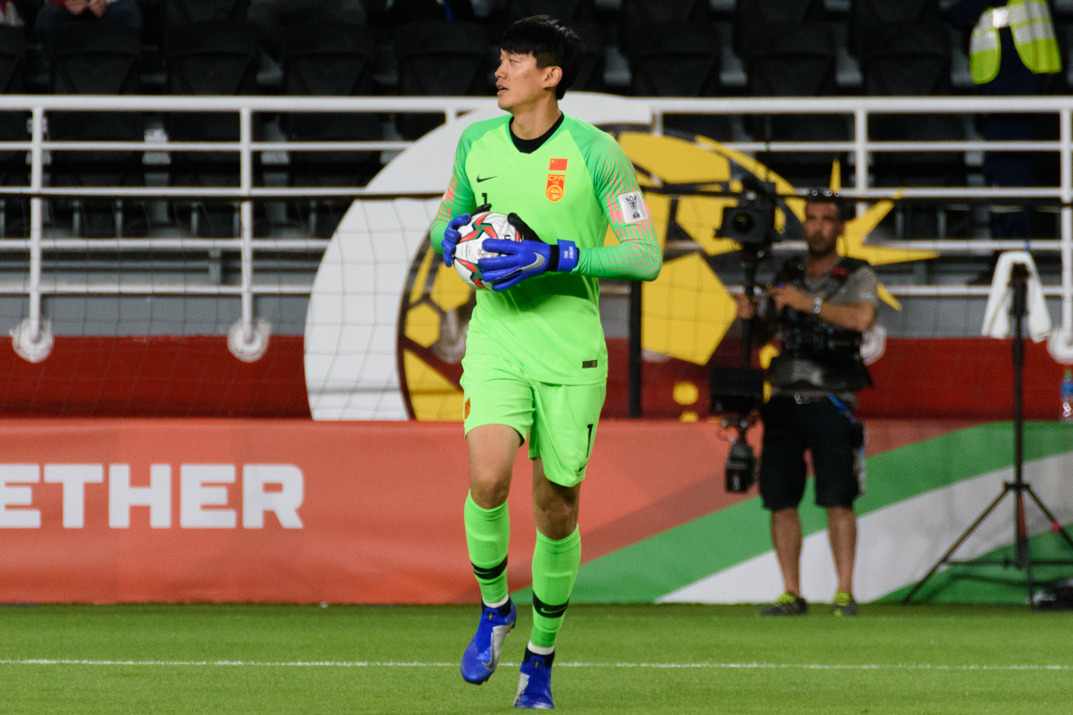 Yan Junling at the Asian Cup 2019